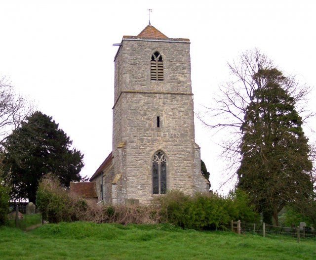 Pendock Church. Some 3.5 km from the village. The roar of the M50 makes this not a very peaceful place.